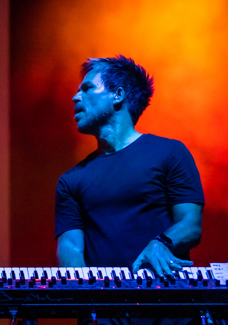 BT of All Hail The Silence live at The Paramount, Huntington, New York, 2019-06-06